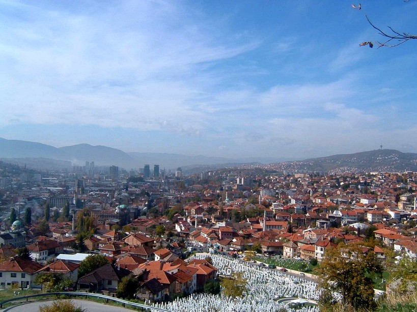 View of Sarajevo from the east. Picture taken by a friend of Asim Led, who agreed to release it under the GFDL.